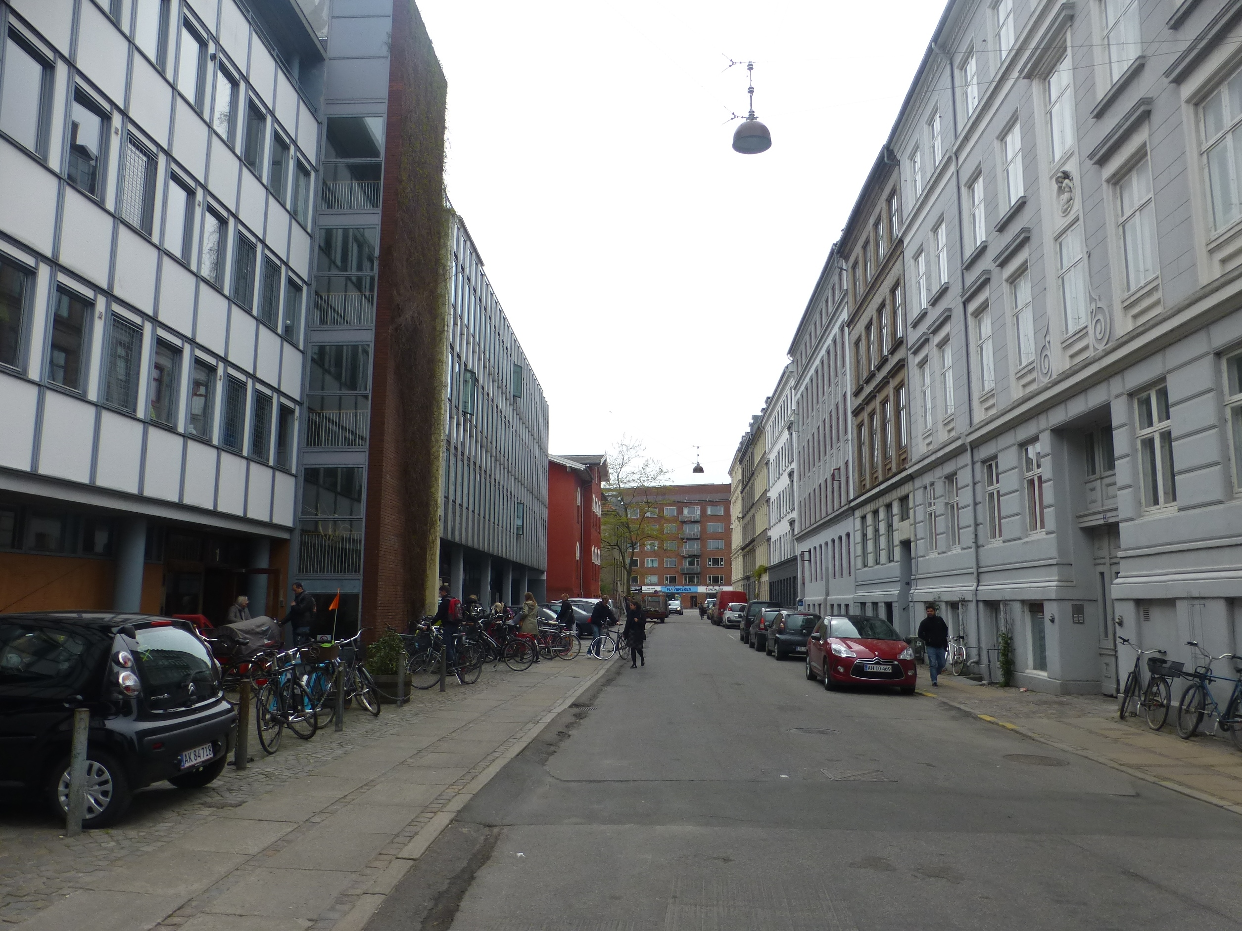 The street Ewaldsgade in Nørrebro in Copenhagen.